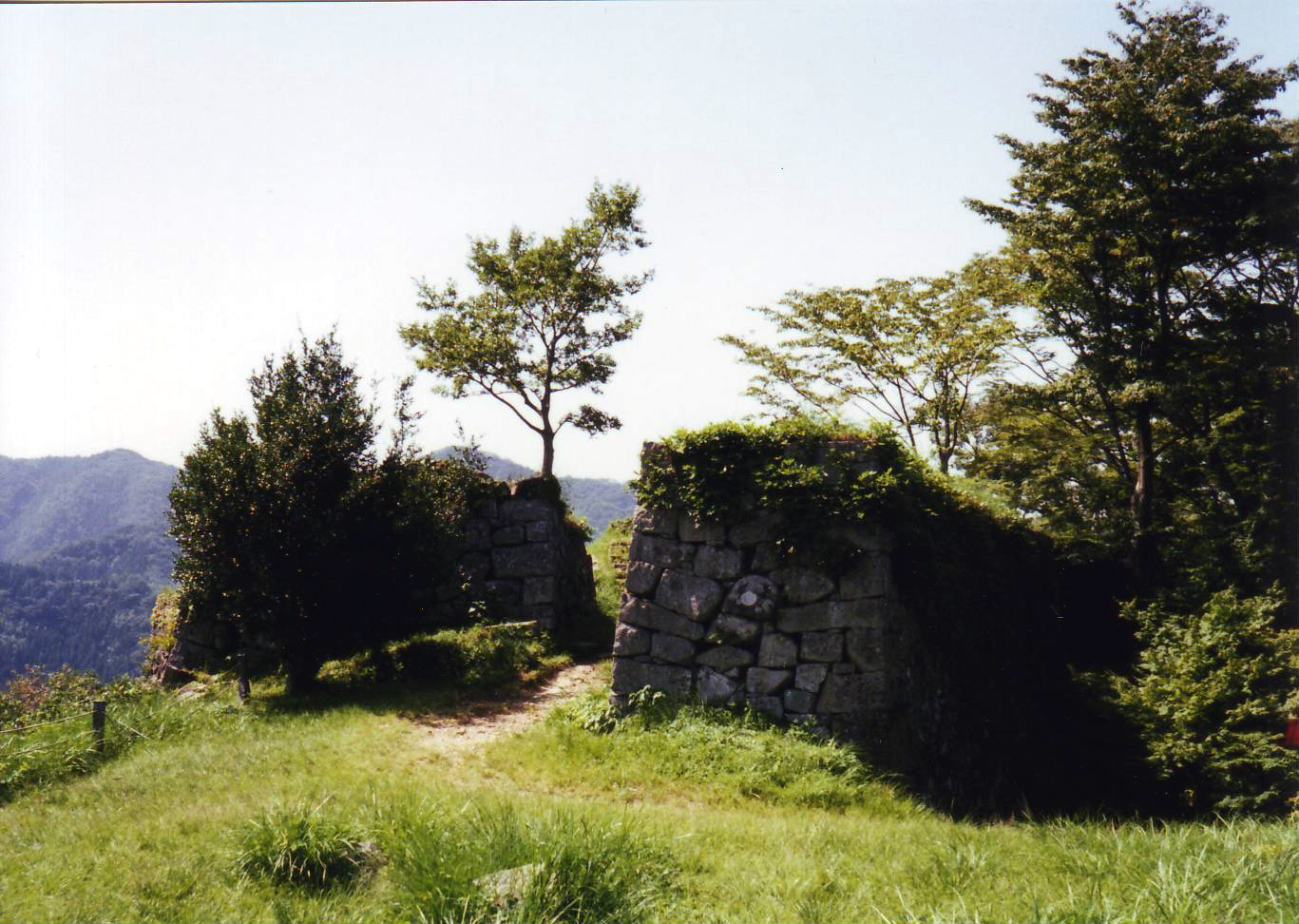 photo of Tsuwano Castle a site of Sanjukken-dai from Taiko-maru